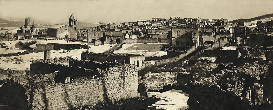 Armenian quarters of the city of Shusha in Nagorno-Karabakh destroyed by Azerbaijani armed forces in 1920, with defiled Armenian cathedral of the Holy Savior on background